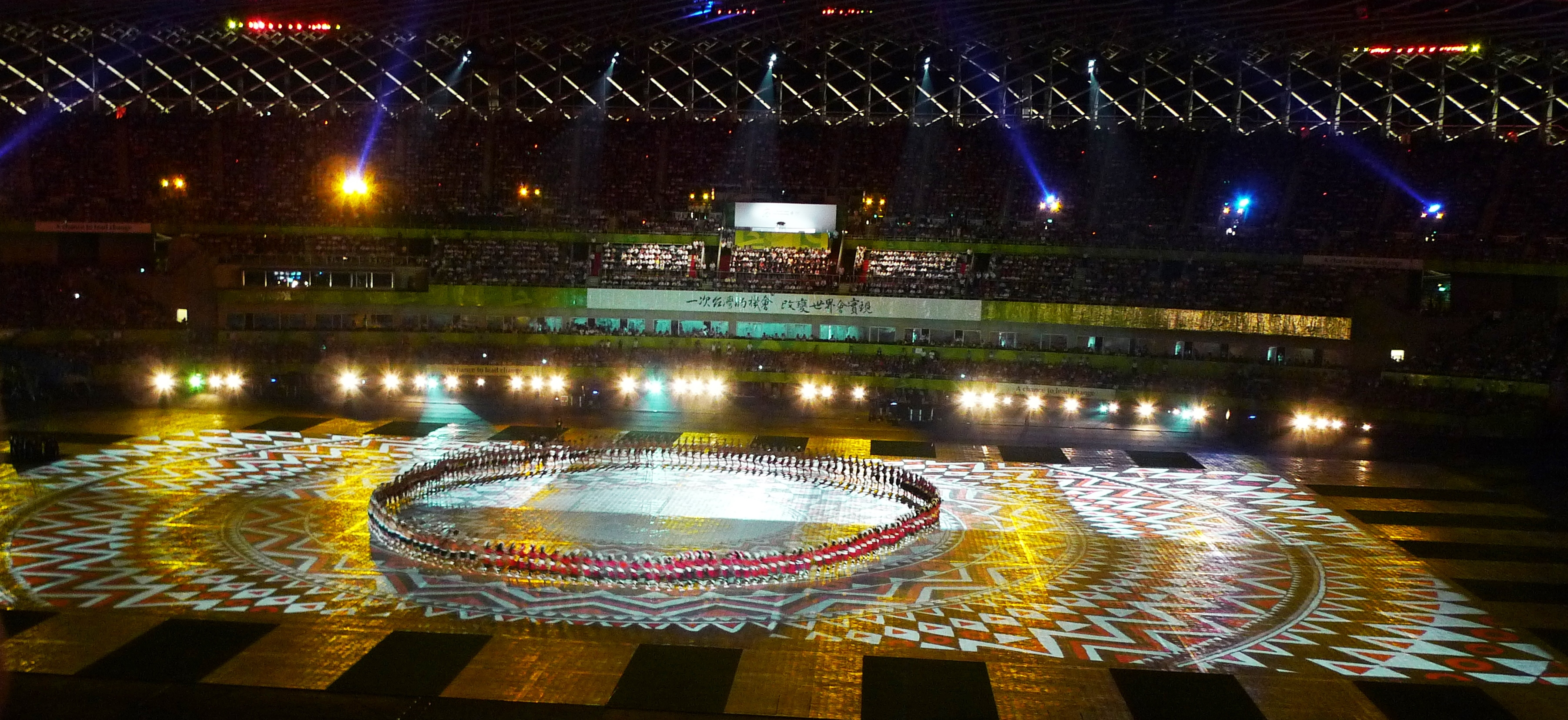 Taiwan Indigenous People's Traditional Dancing